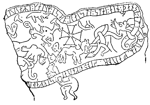 The runestone Gökstenen in Strängnäs Municipality, Sweden